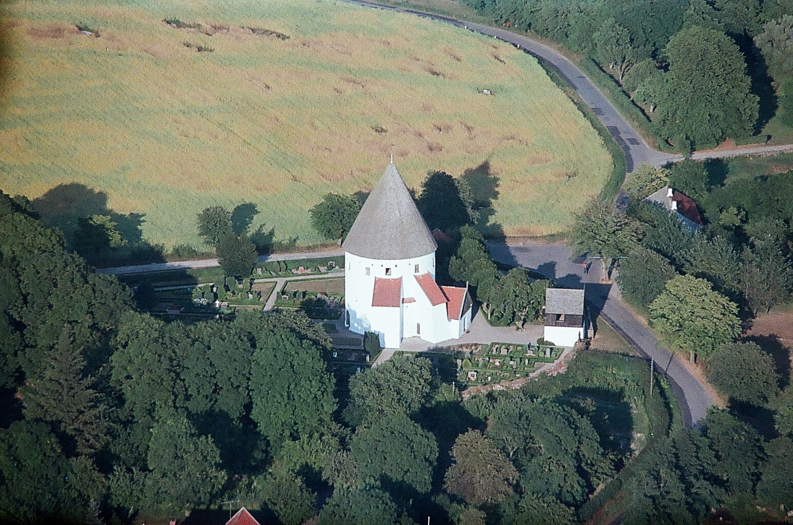 Bornholm Island, aerial view of Sankt-Ols-Kirche 7.8.1982